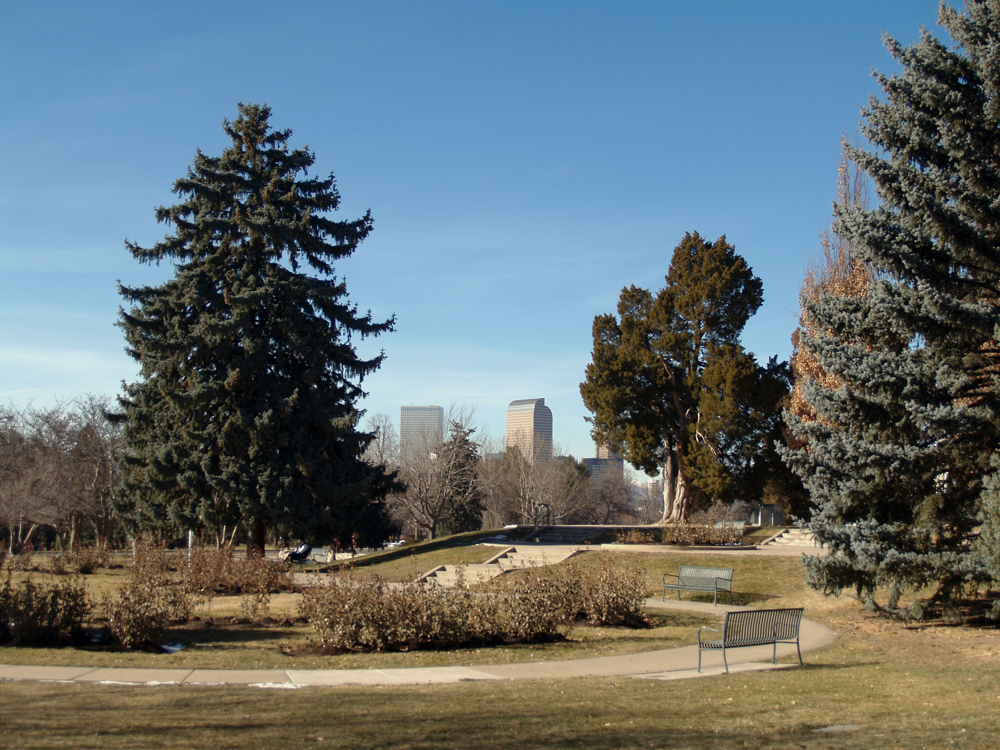 Denver's Cheesman Park in the winter.